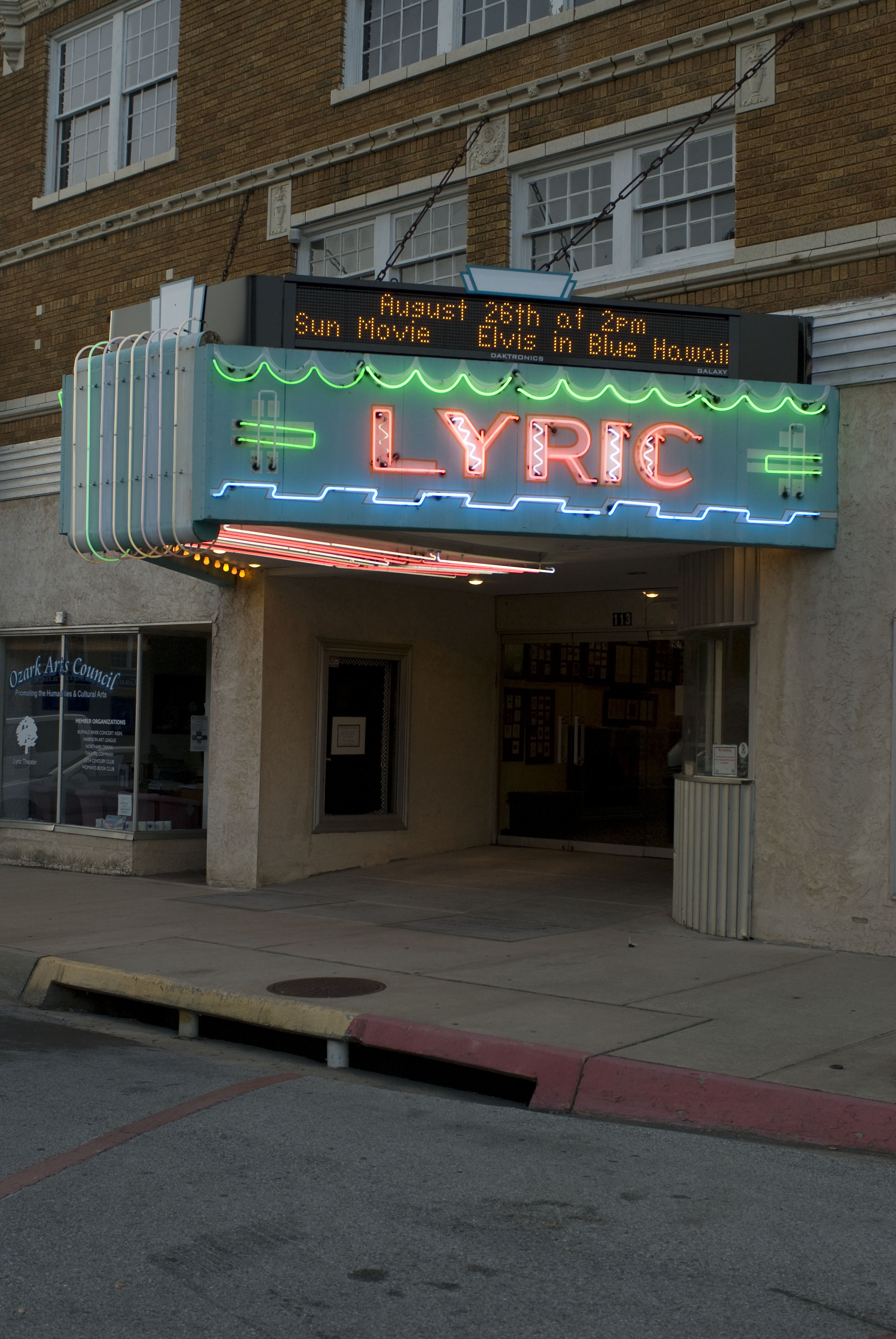 Historic Lyric Theatre in downtown Harrison, Arkansas. Hosts plays, concerts and the occasional film.